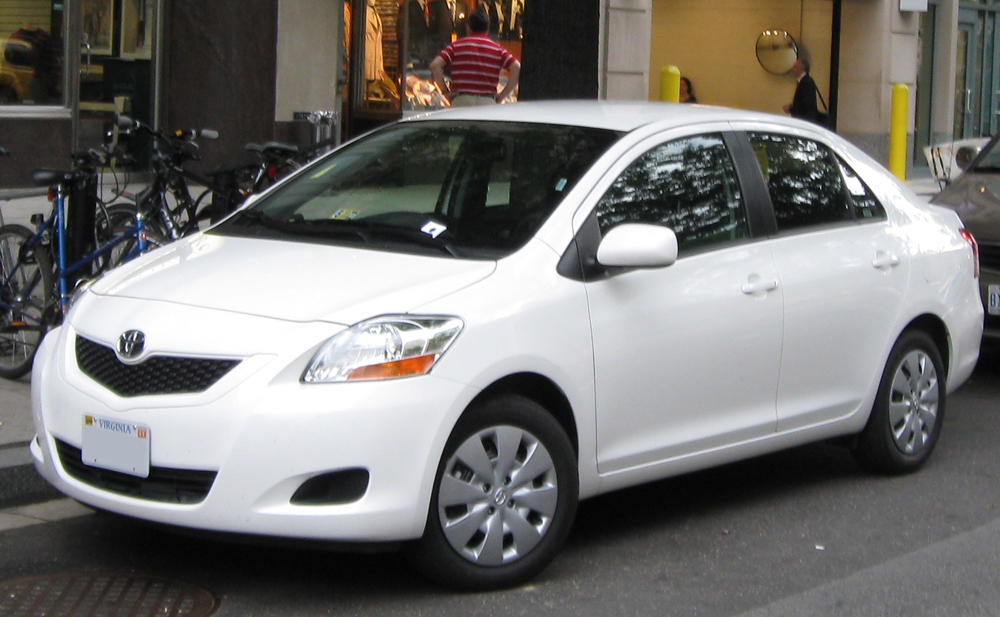 2009 Toyota Yaris photographed in Washington, D.C., USA.